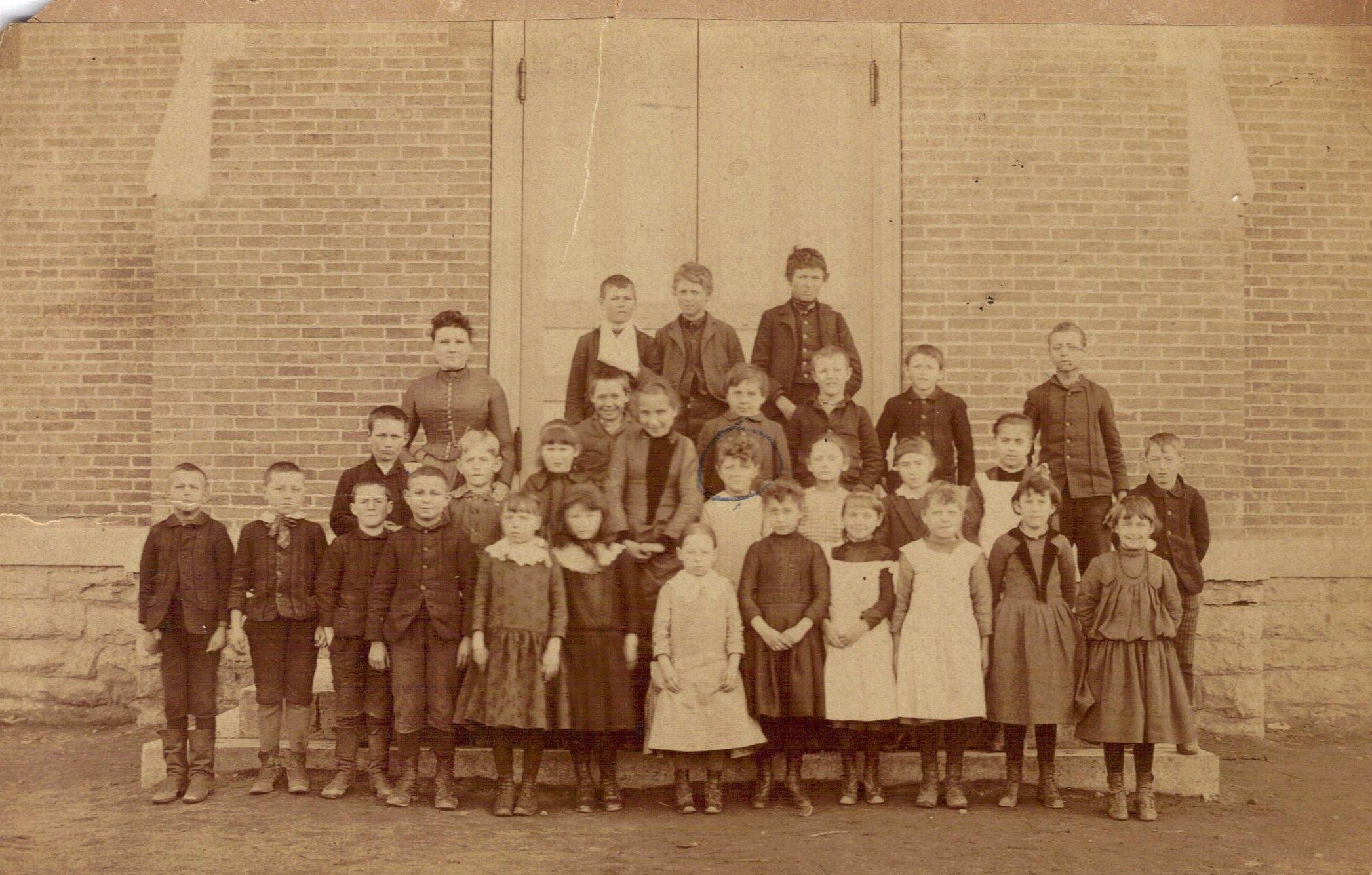 Photo taken in 1888 of the teacher and students in the "3rd room" of the Williamson School in Wapakoneta, OH